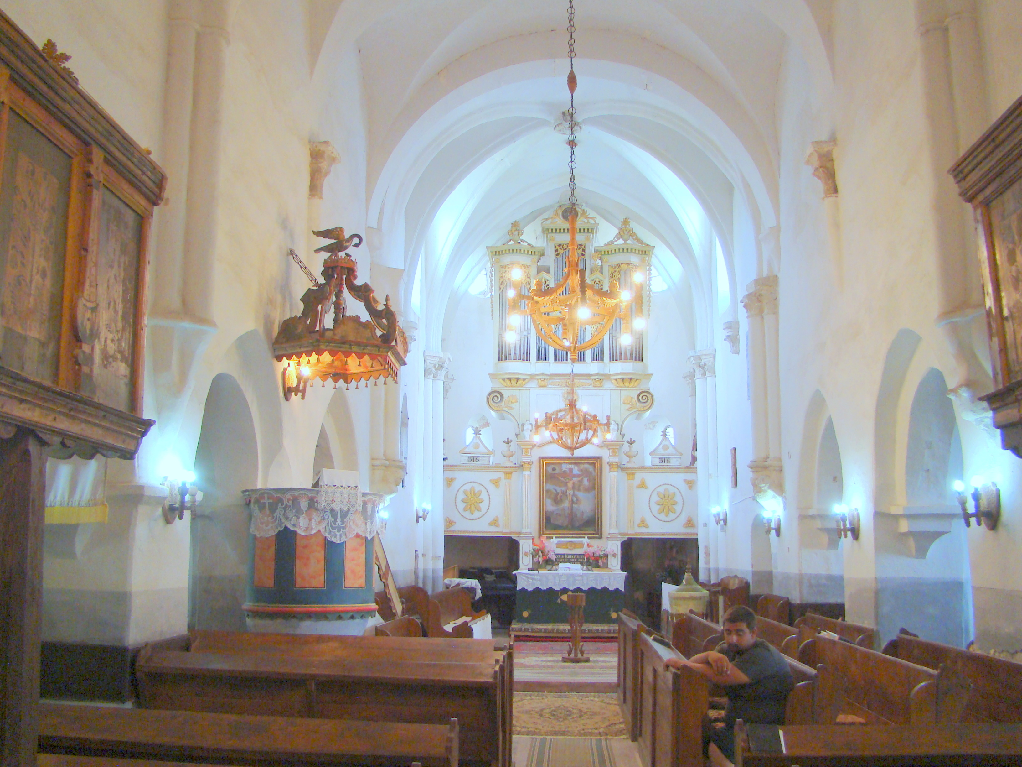 Lutheran church in Hălmeag, Brașov County, Romania